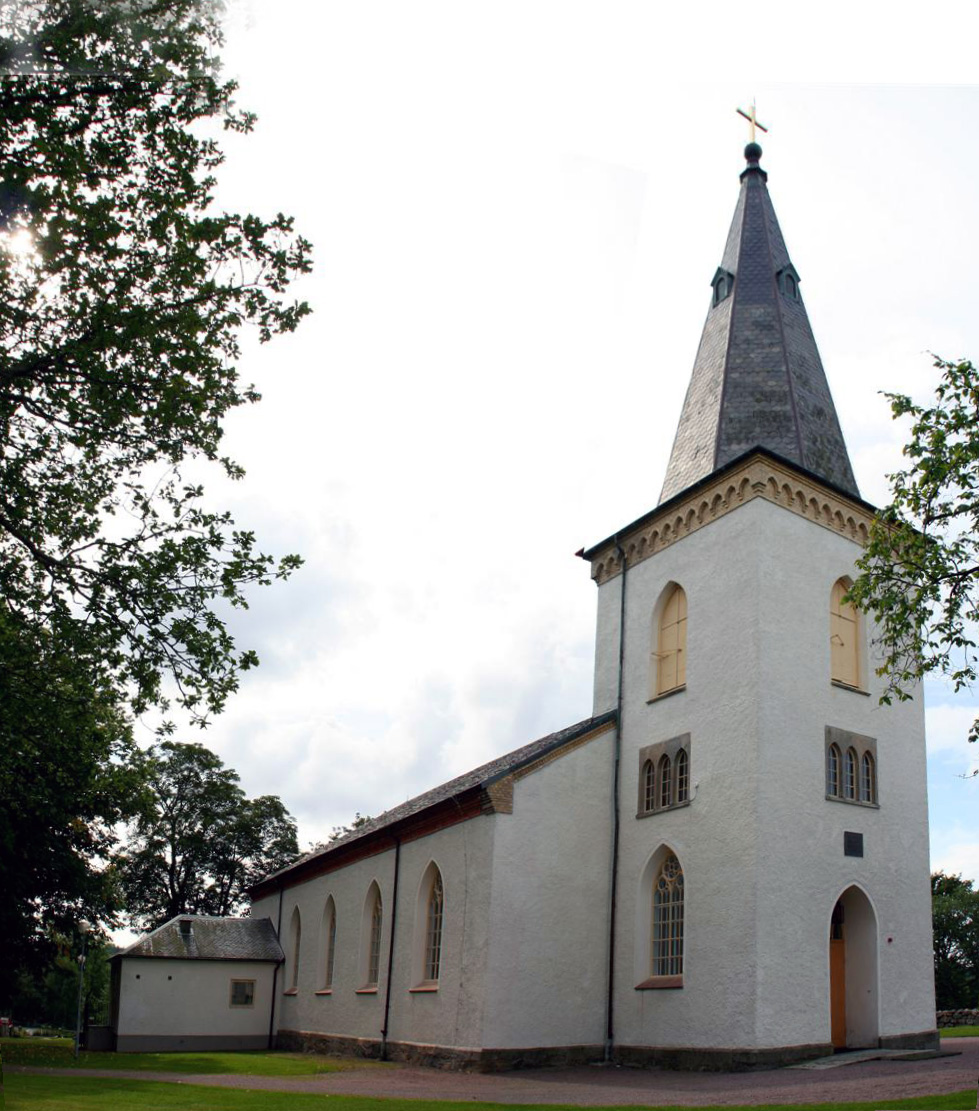 Askim Church